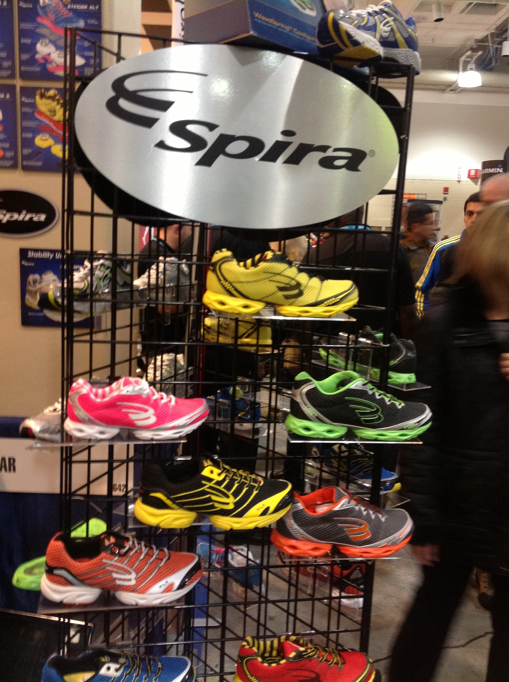 A Spira shoe display taken on my iPad during the 2013 Boston Marathon Expo